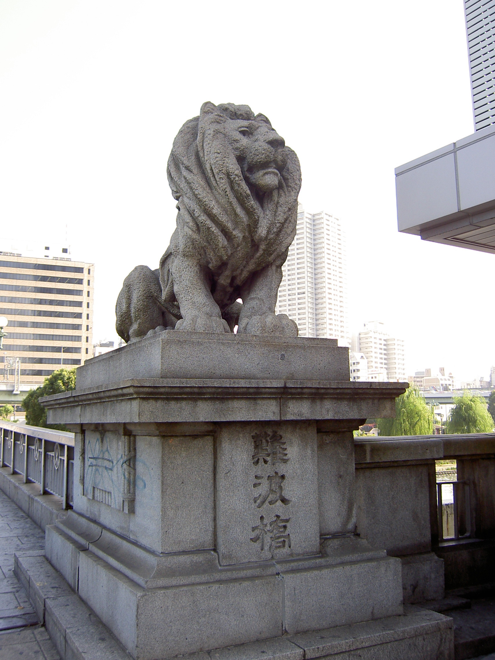 A lion stone statue of a Naniwa Bridge handrail. Chuo-ku, Osaka-shi, Osaka, Japan.